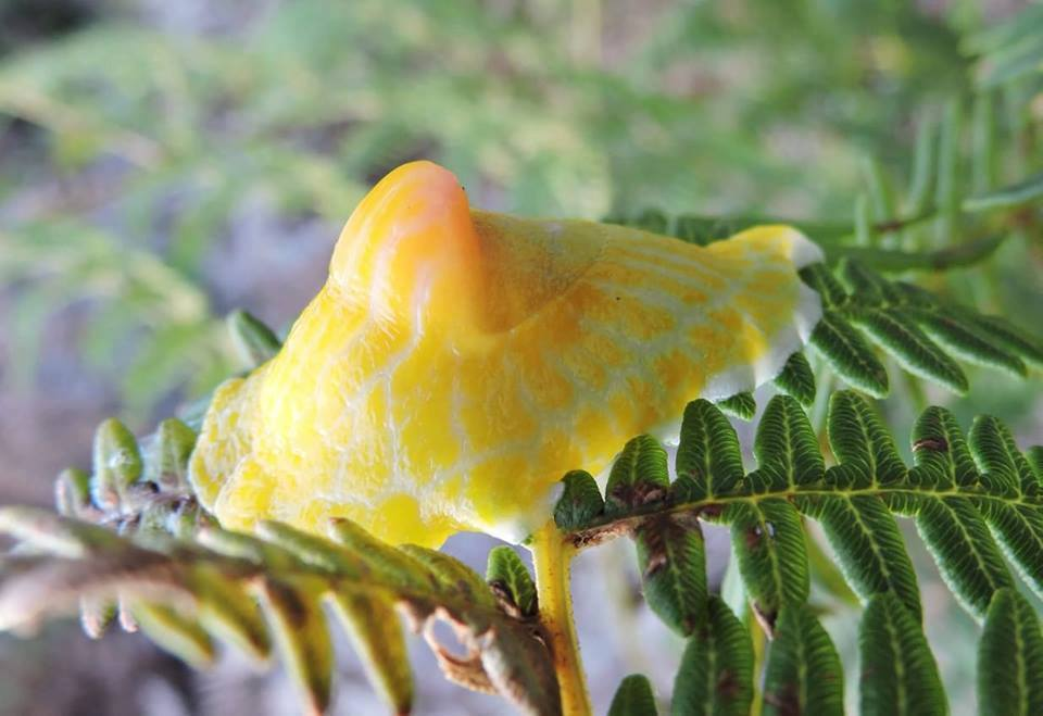 Brazilian ground slug Peltella iheringi. Photograph taken in the municipality of Cunha, São Paulo state, Brazil. 24 June 2018.